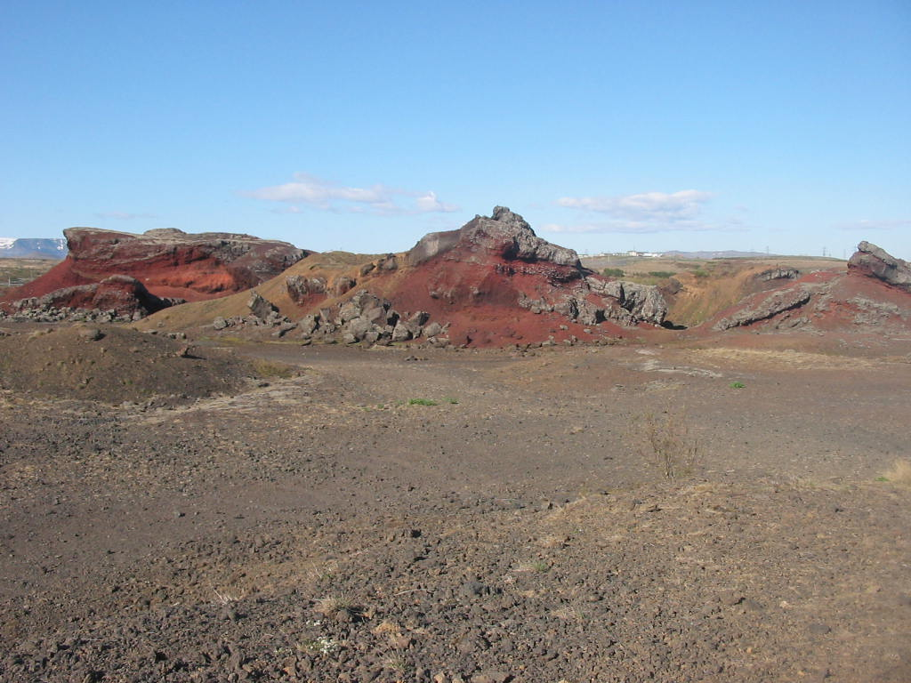 Rauðhólar (icelandic Red hills) - remnants of a cluster of pseudocraters in Elliðaárhraun lava fields on the south-eastern outskirts of Reykjavík, Iceland. The age of Rauðhólar is about 4600 years. Originally there were over 80 craters but the gravel from them was taken and used in constructions. Most of the material was taken around World War II for constructions such as Reykjavík airport and road building.